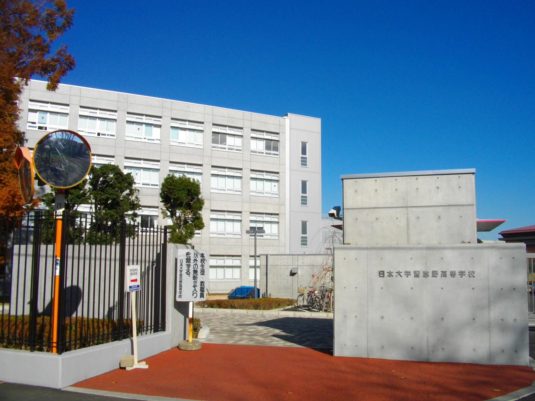 Nihon University Narashino High School